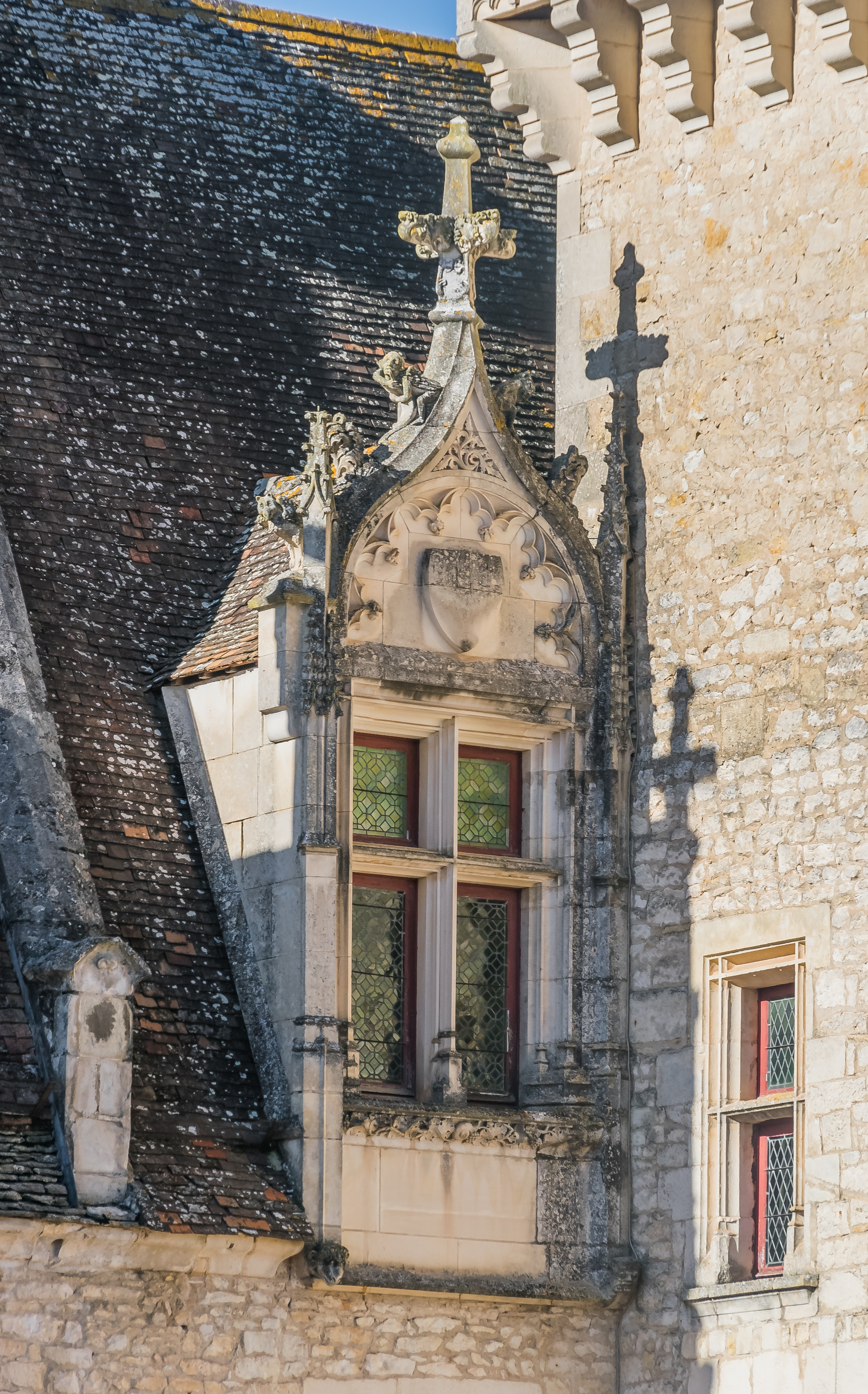 Window of the castle of Milandes, commune of Castelnaud-la-Chapelle, Dordogne, France .